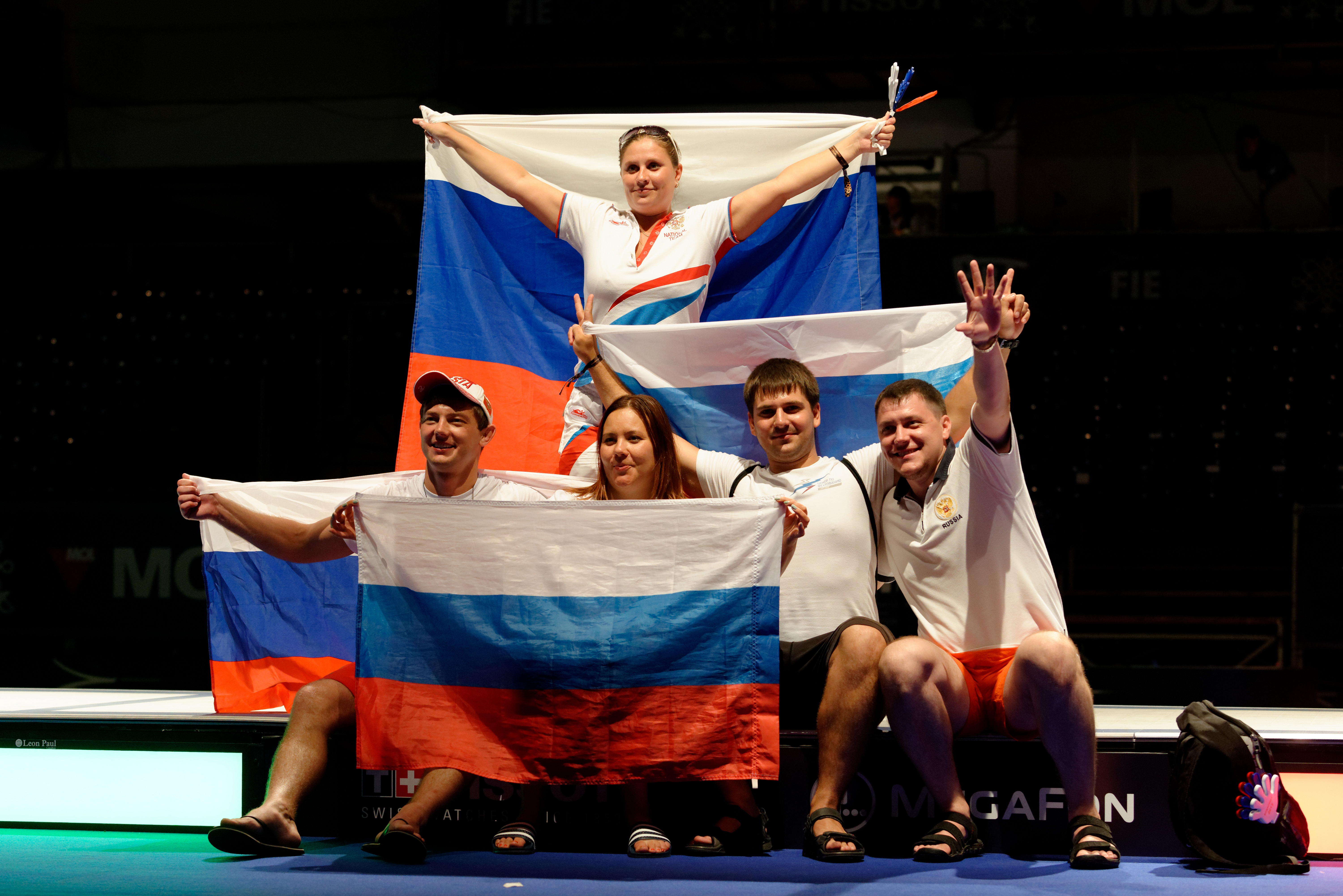 Russian fans pose proudly on the piste after the men's sabre event in the 2013 World Fencing Championships 2013 at Syma Hall in Budapest, 10 August 2013.